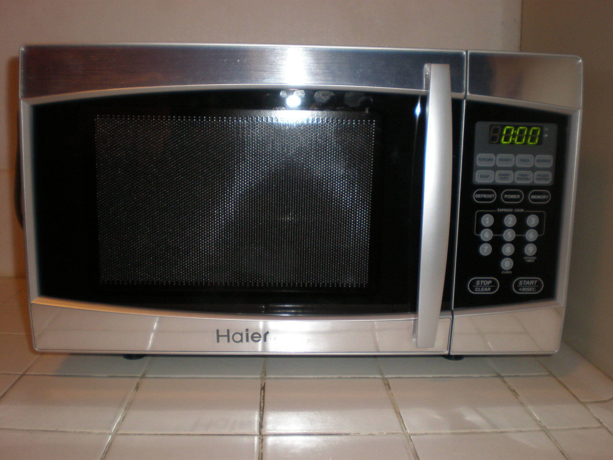 A Haier MWM7800TBPG microwave oven